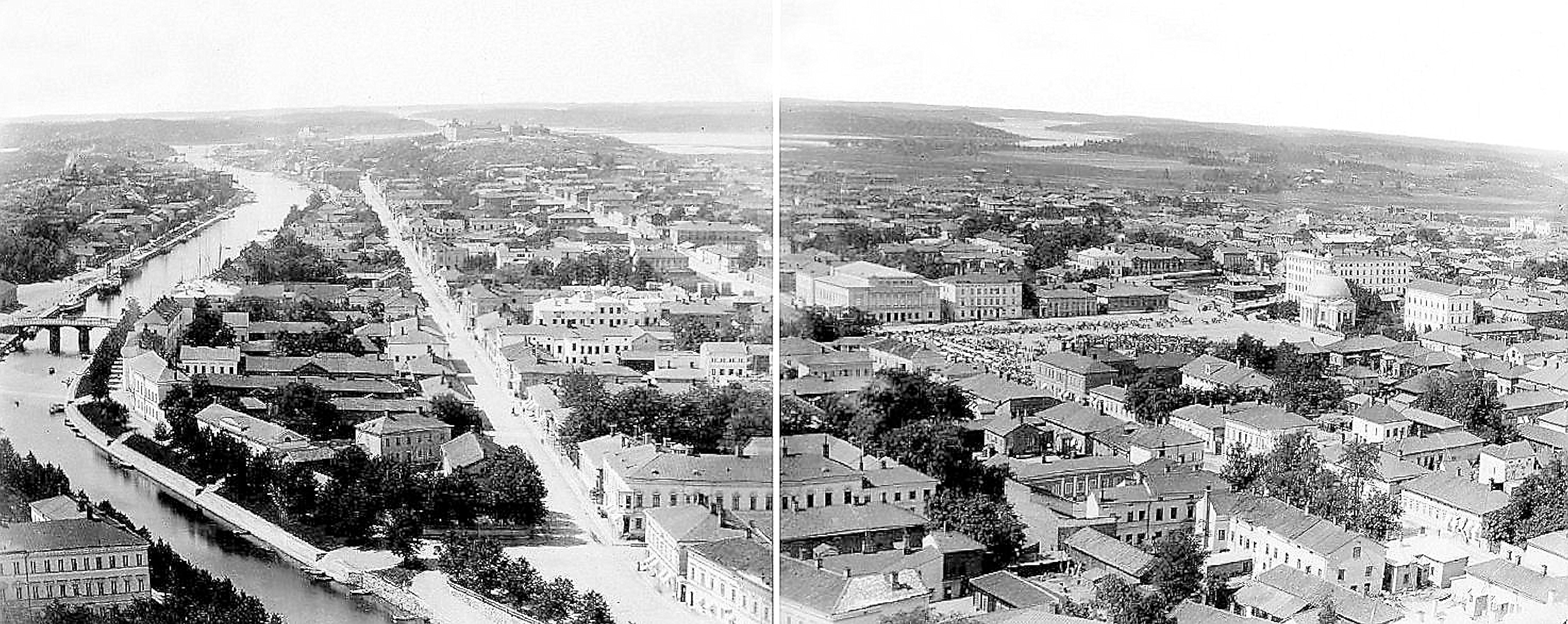 Turku panorama late 19th century.